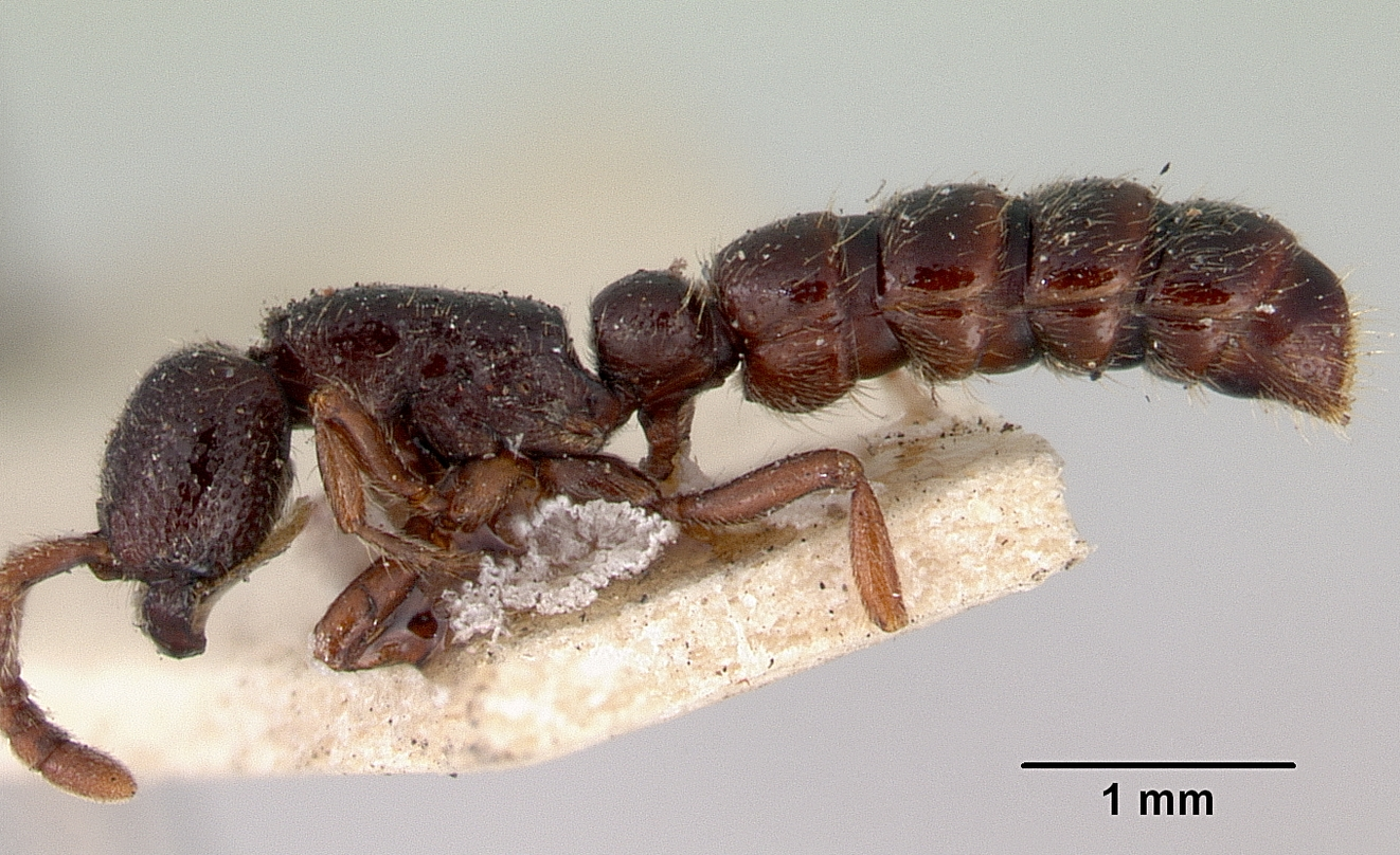 Profile view of ant Sphinctomyrmex nigricans specimen casent0172080.